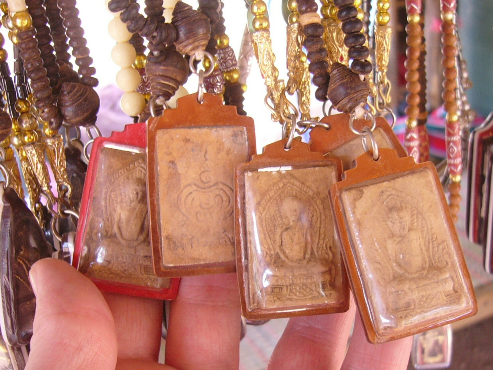 Buddhist amulets (Thai: "Phra Phim"), seen in Thailand.